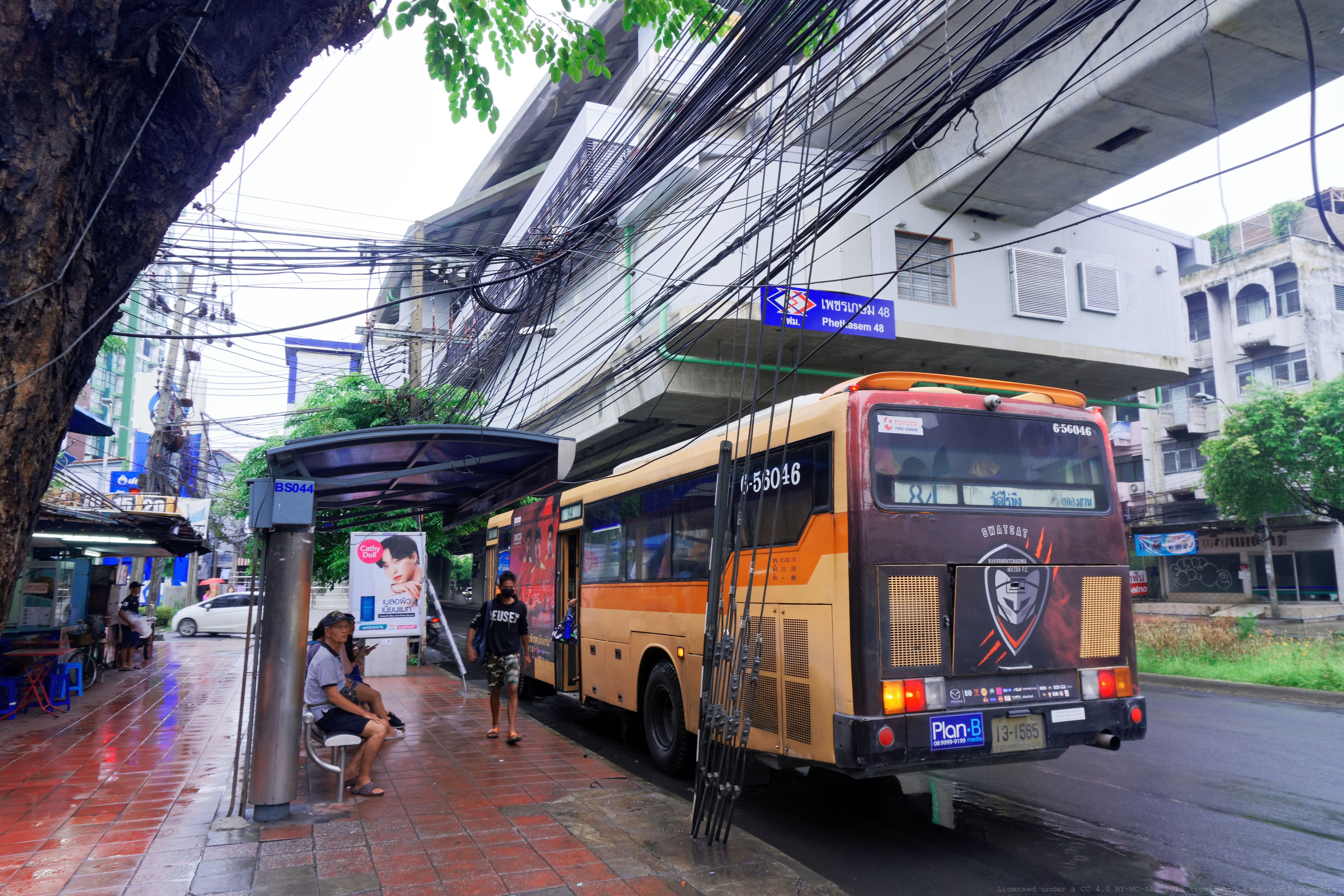 MRT Phetkasem 48 station: Bus stop near the station